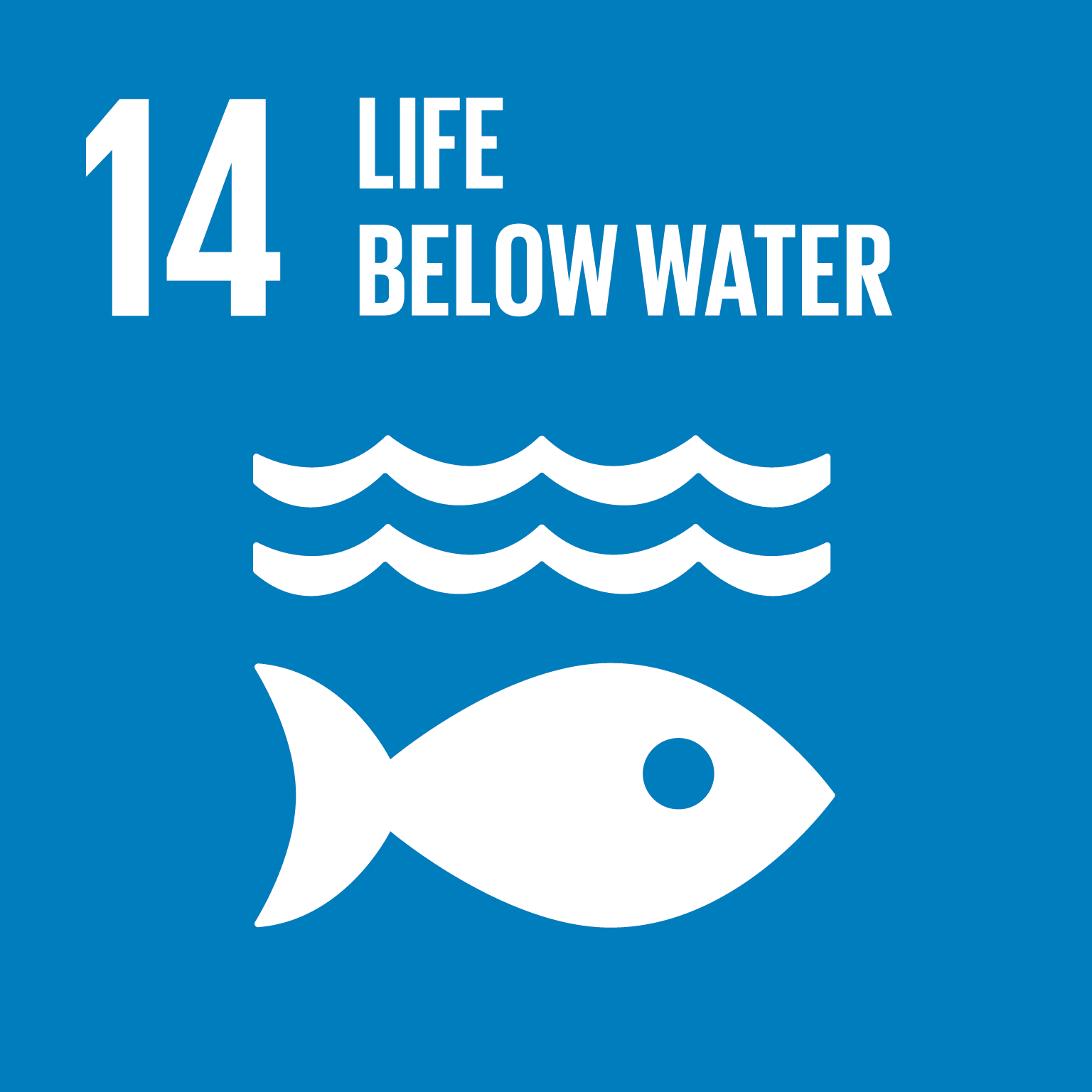 SDG14 Life Below WaterRomână: Obiectivul de dezvoltare durabilă nr. 14: Oceanuri durabile (în engleză)